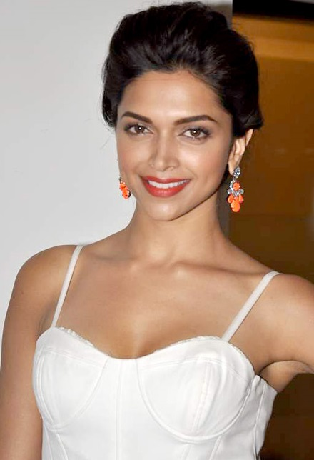 Deepika Padukone at Ram-Leela screening